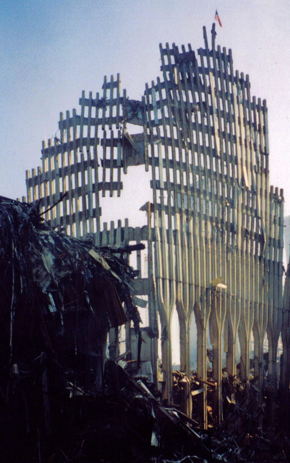 Remains of the outer shell of 2 World Trade Center. 3 World Trade Center is in the left foreground. Taken by me in September, 2001.